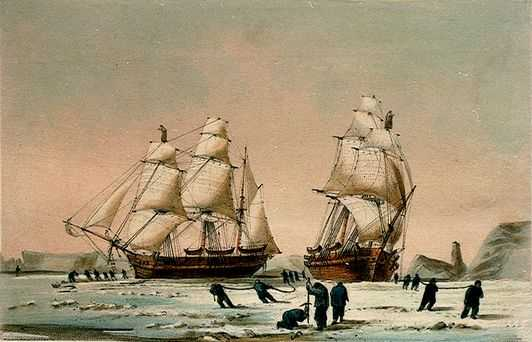 The Devils Thumb, Ships Boring and Warping in the Pack, Dedicated by special permission to the Lords Commissioners of the Admiralty By their Lordships' most obedient Servant W H Browne, Lieut R N